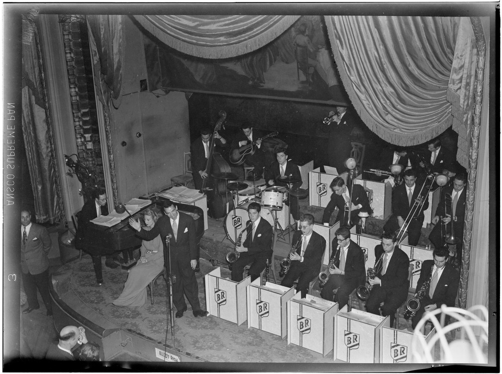 Buddy Rich Big band, ca. 1940s